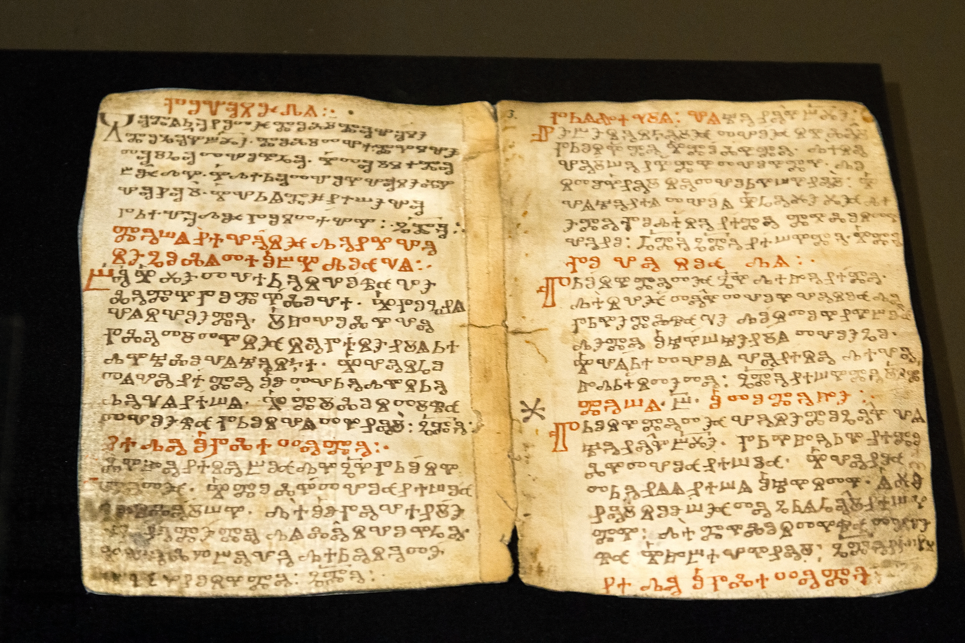 Facsimile: The Kiev Missal, Great Moravia - Bohemia, early 10th century, parchment. Nat. Heritage Institute, exhib. in Sázava. (Original: Kiev, library of Ukrainian Academy of Sciences; DA / P 328.)